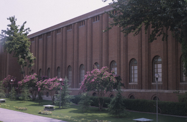 Building of National Iran Museum, Tehran.